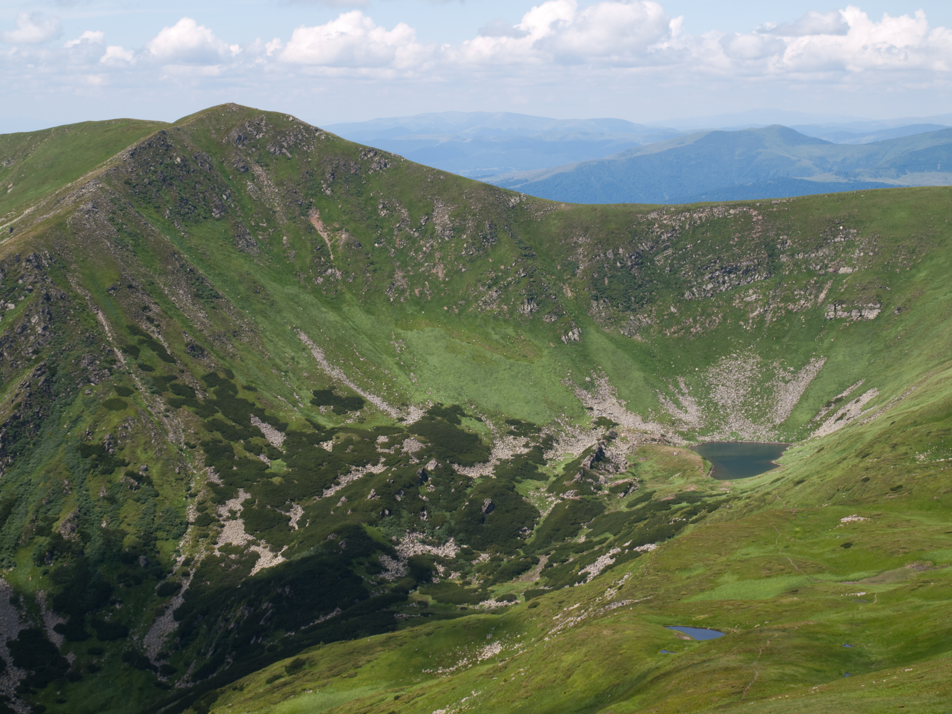 Gutin Tomnatik peak and Brebeneskul lake.